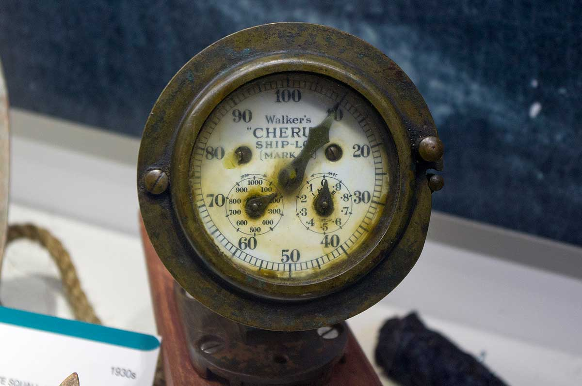 "Cherub" model ship's mechanical speed log, manufactured by Thomas Walker. On display at Scalloway Museum.